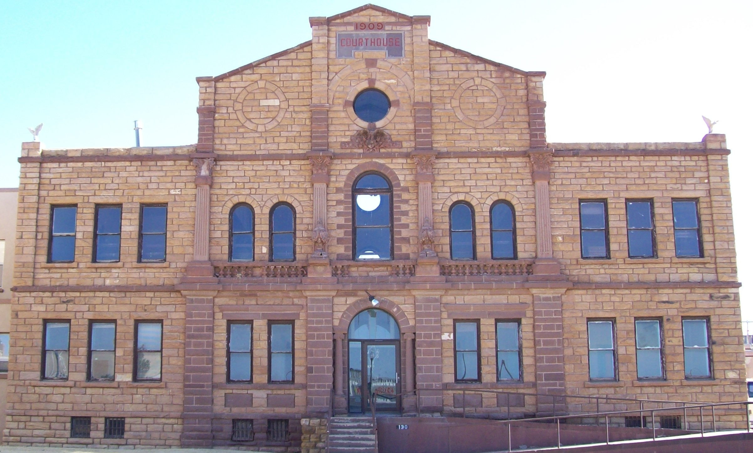 Guadalupe County, New Mexico, Courthouse (older portion, built 1909) located in Santa Rosa